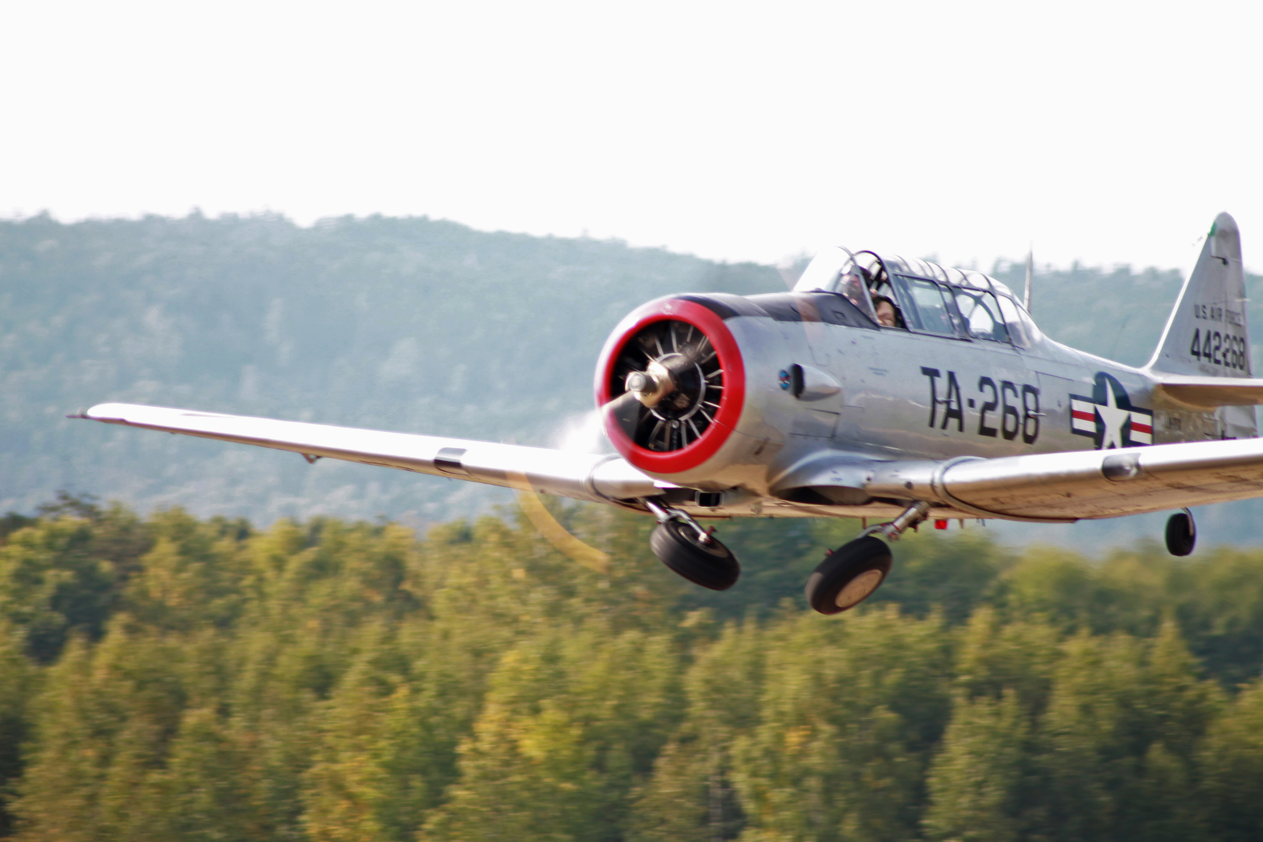 Operated by Norwegian Spitfire Foundation